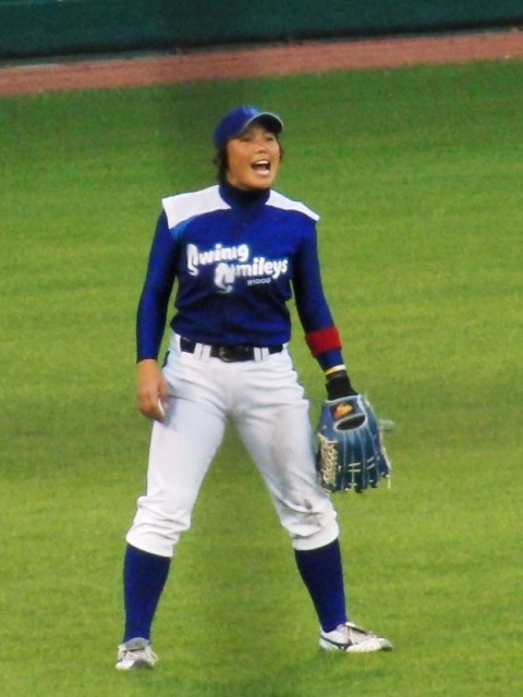 Shiho Masuda